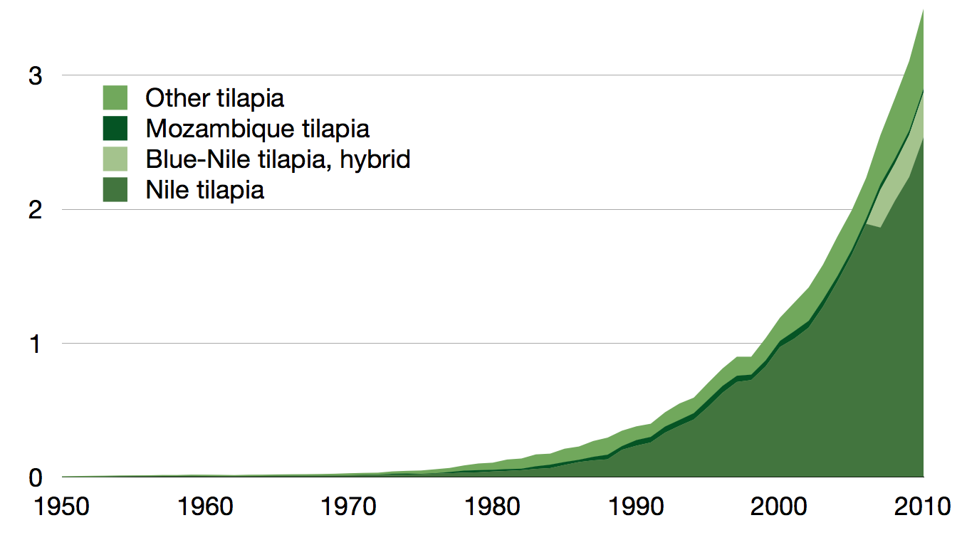 Global production of farmed tilapia in million tonnes, 1950–2010, as reported by the FAO. Based on data sourced from the FishStat database